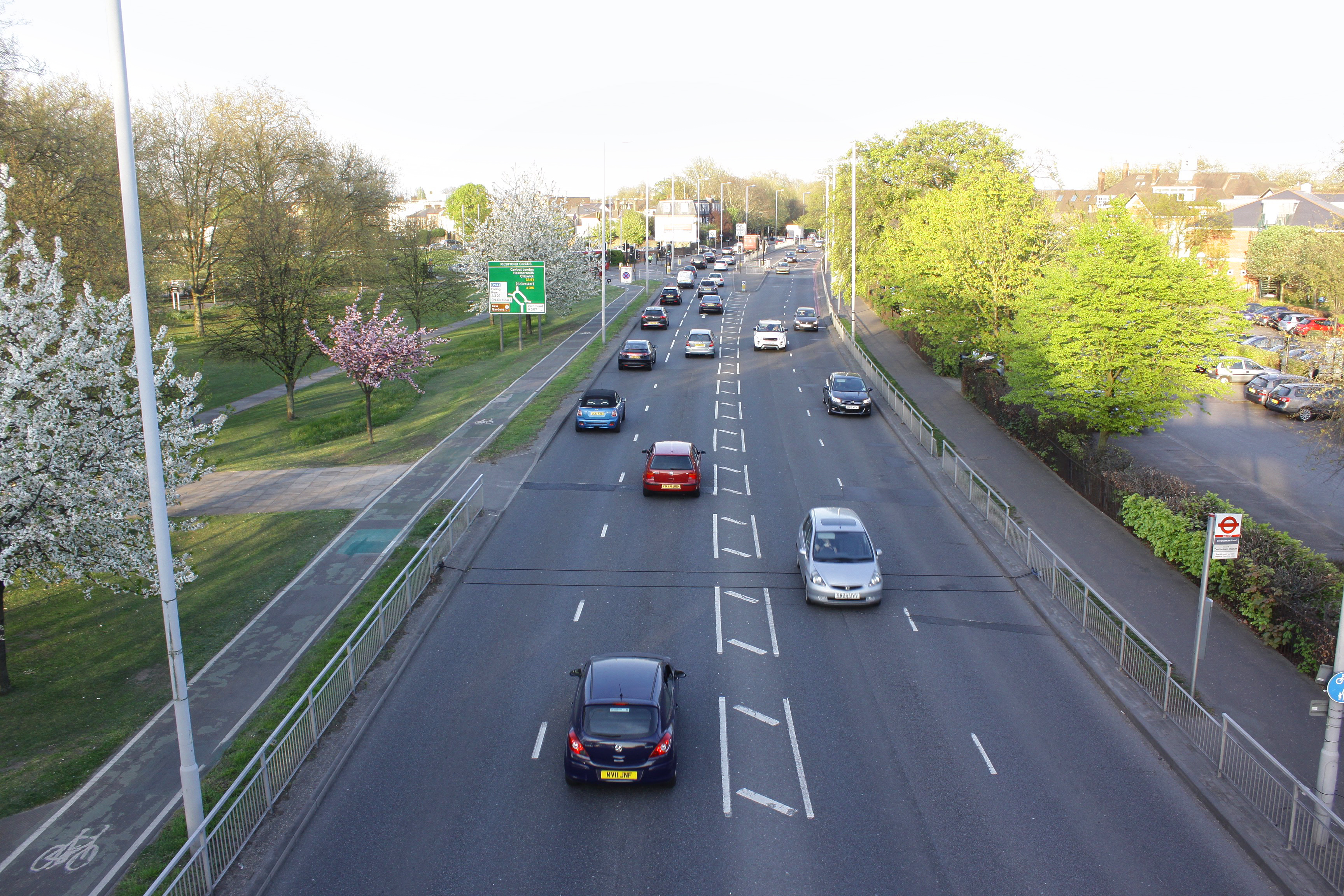 Twickenham Road towards Richmond and Kew Gardens